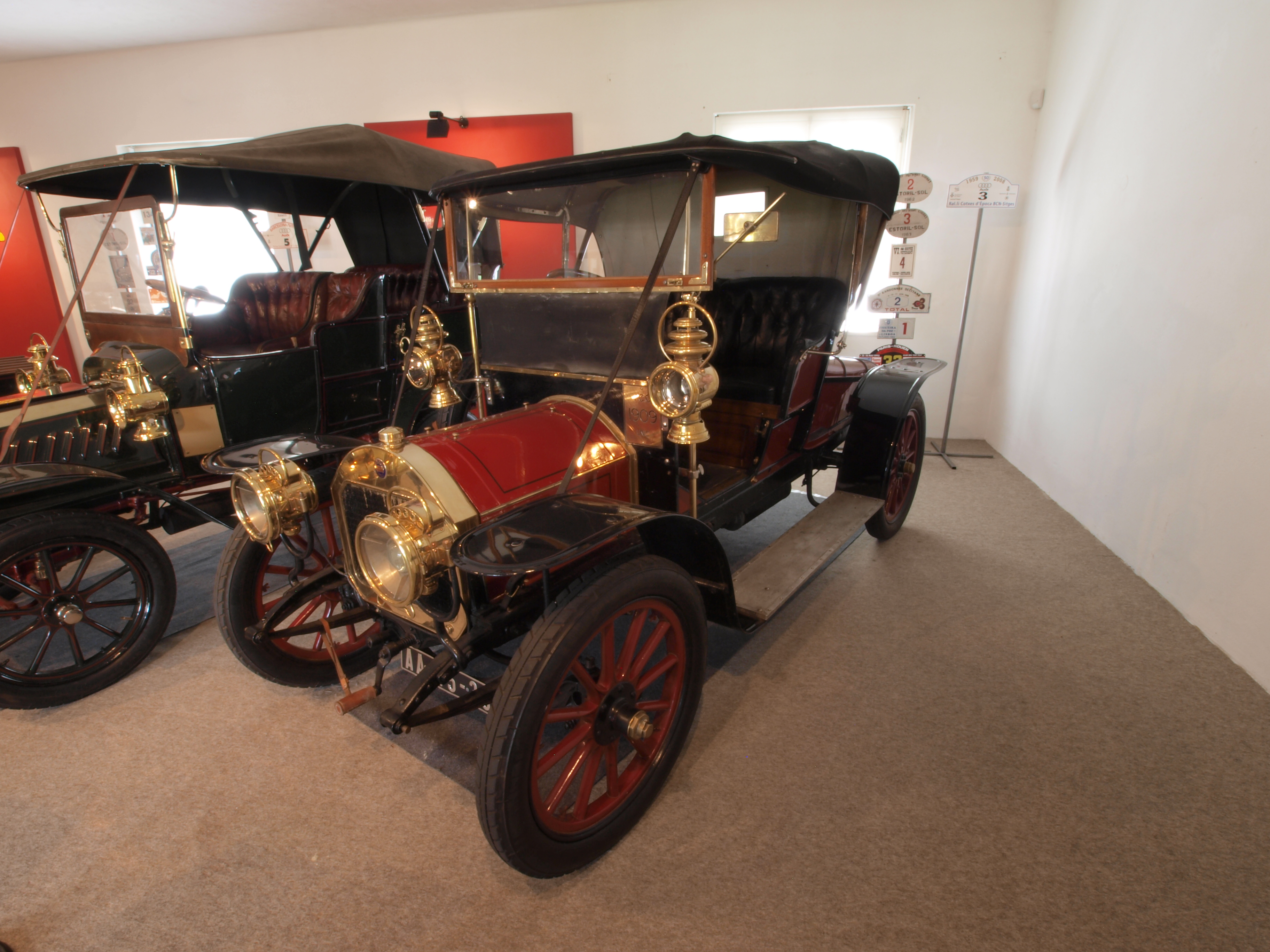 UNIC 12hp car photographed at the Caramulo museum, 'Museu do Caramulo', Caramulo, Portugal. OLYMPUS DIGITAL CAMERA